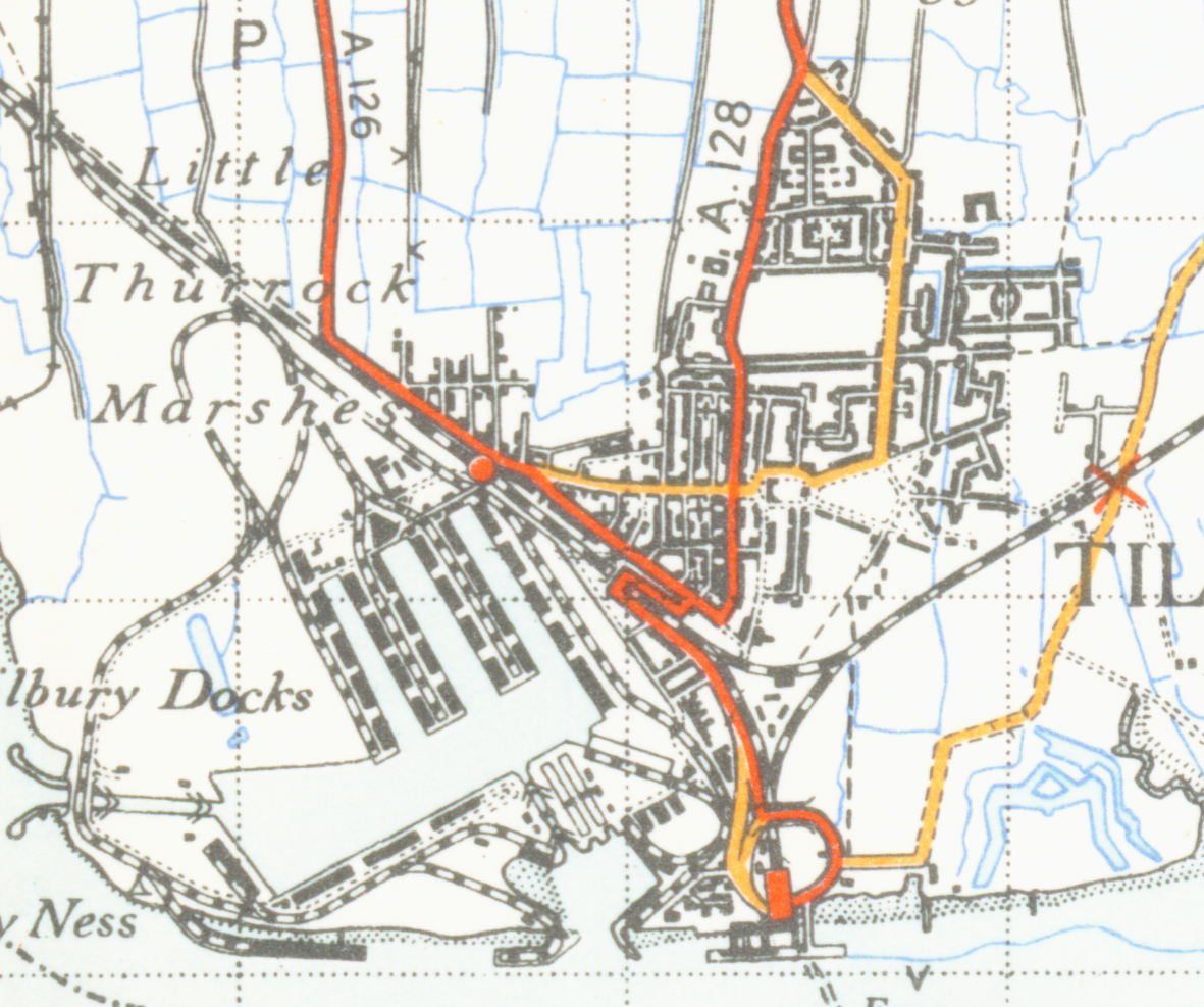 map of Tilbury 1 inch to the mile scale scanned at 600 DPI